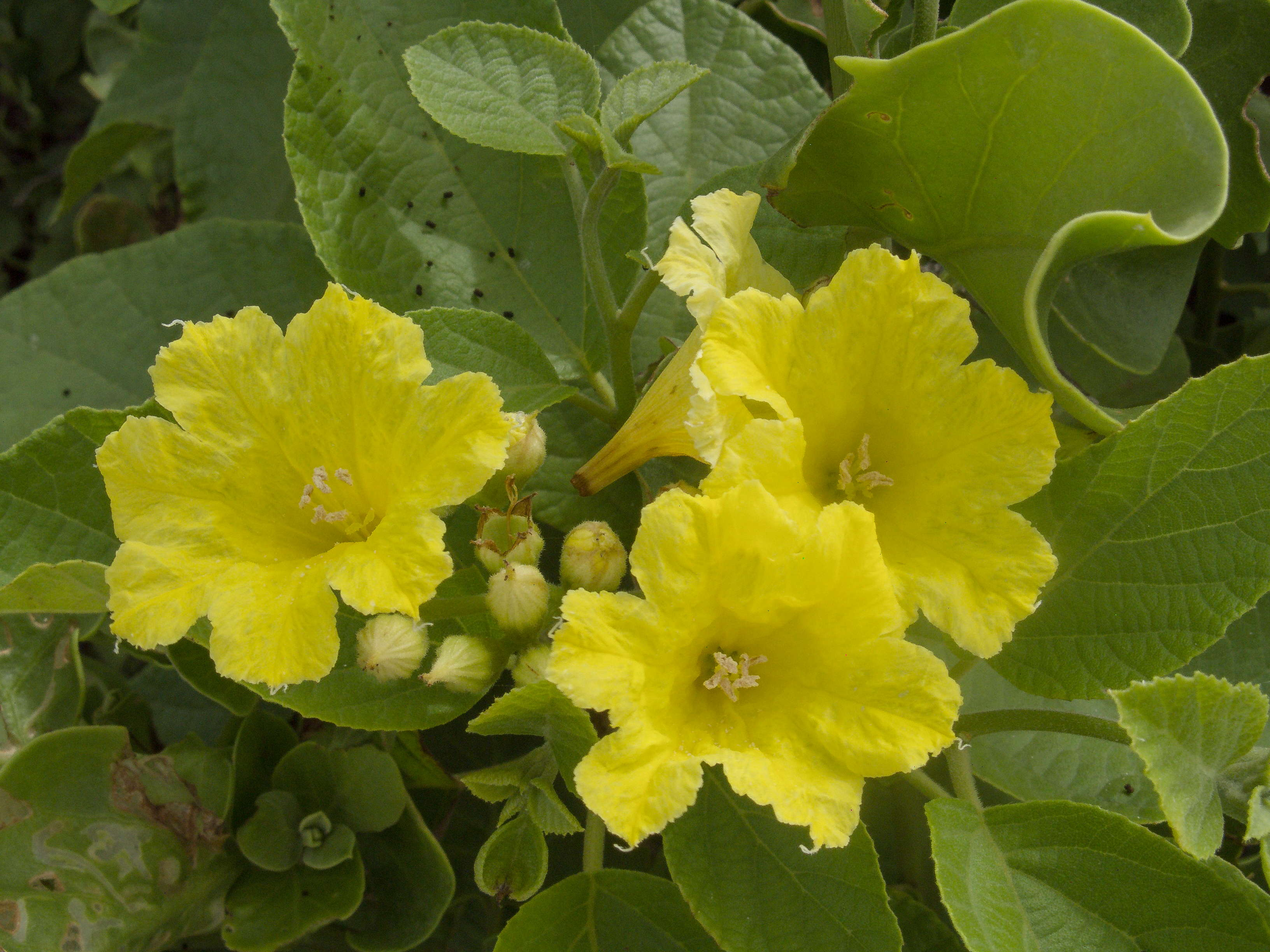 Flowers of Cordia lutea (yellow cordia), Santa Fé Island, Galapágos